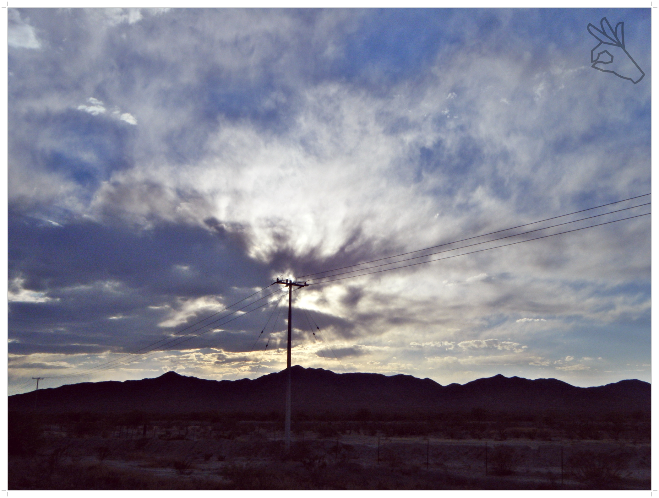 Dessert sunset at Bolsón de Mapimí.